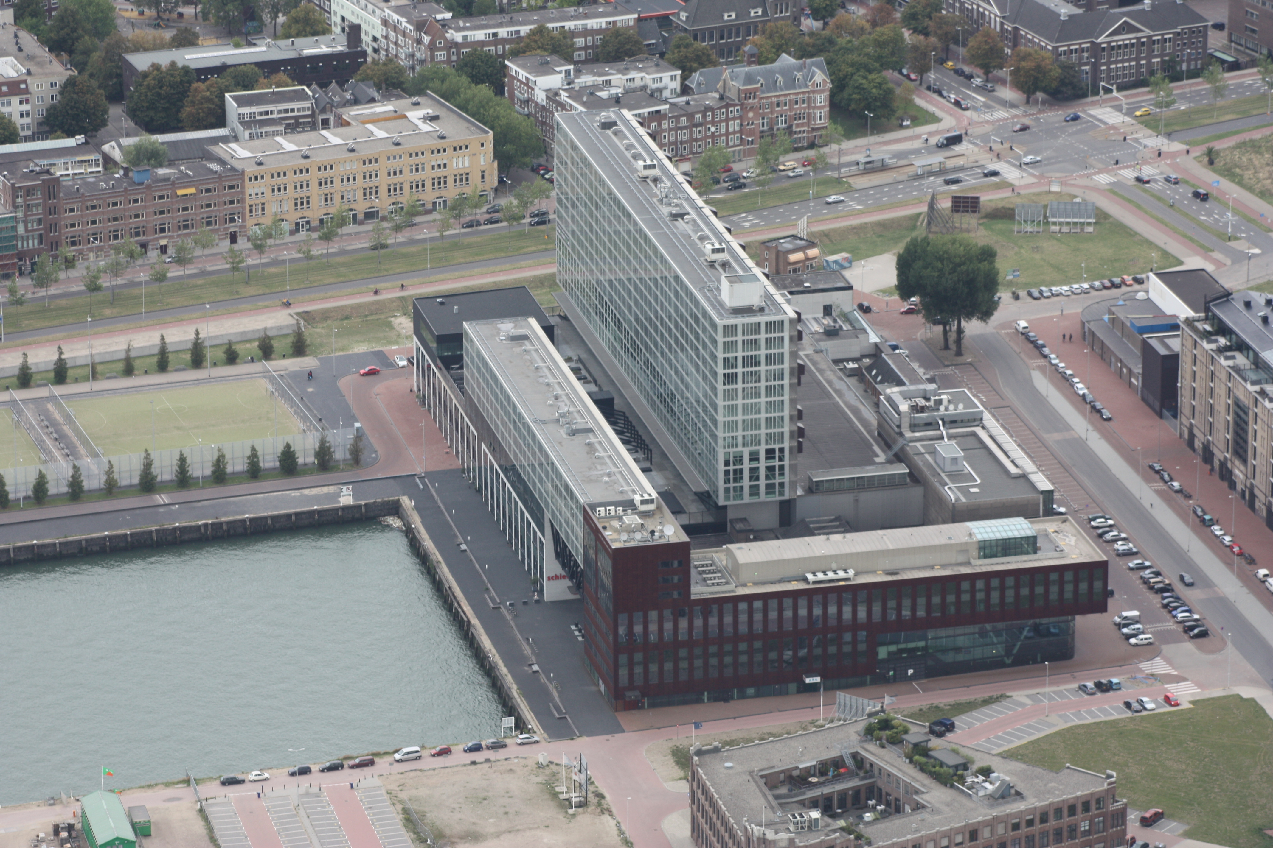 West side of Schiecenrale 4b